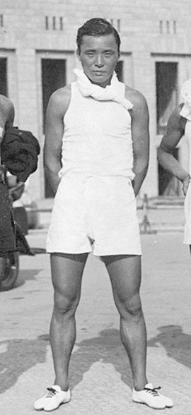 Tamao Shiwaku after a training ahead of the Berlin Olympic on June 19, 1936 in Berlin, Germany